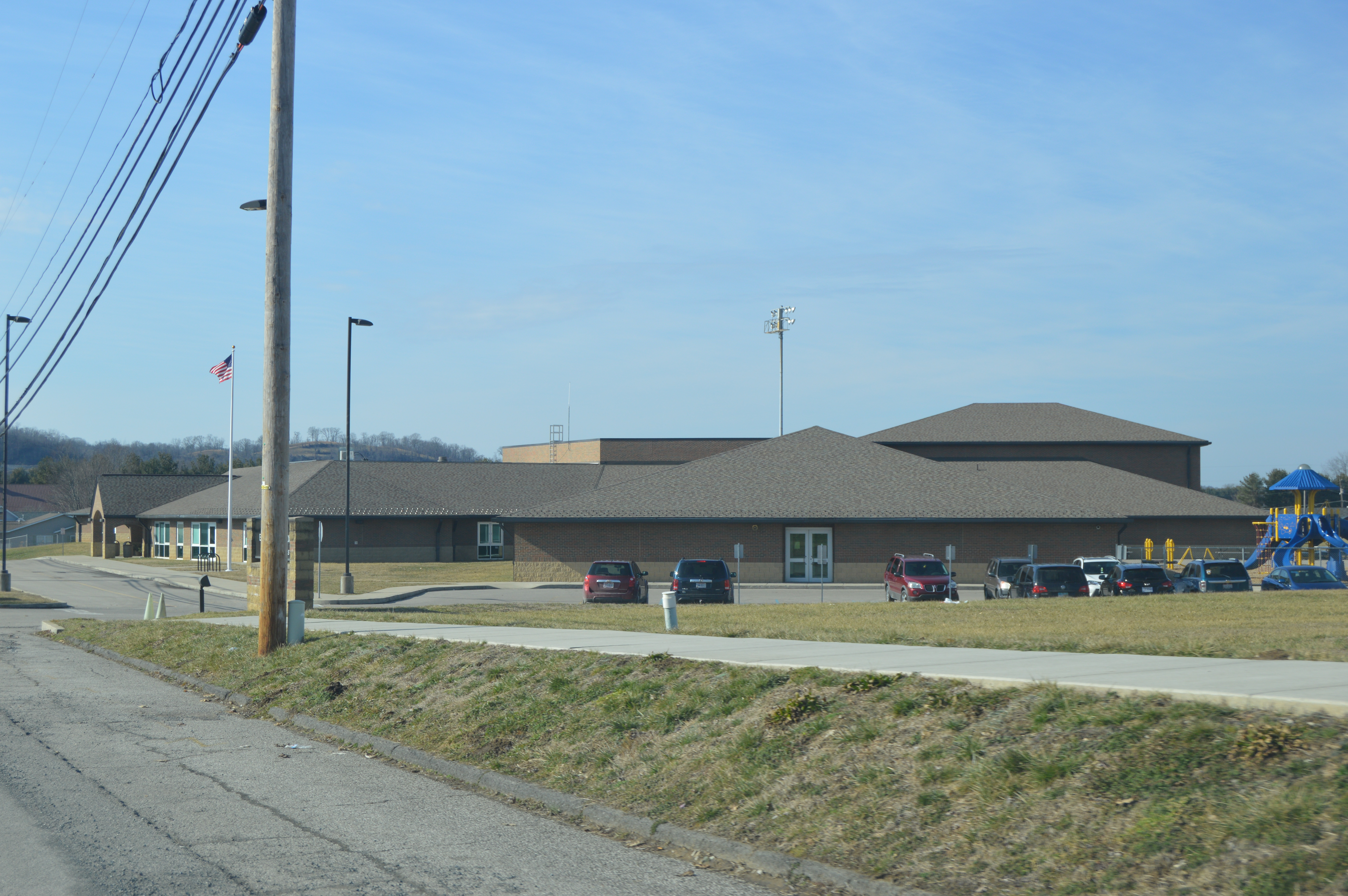 Front and eastern side of South Point Elementary School, located at 201 Park Avenue in South Point, Ohio, United States.